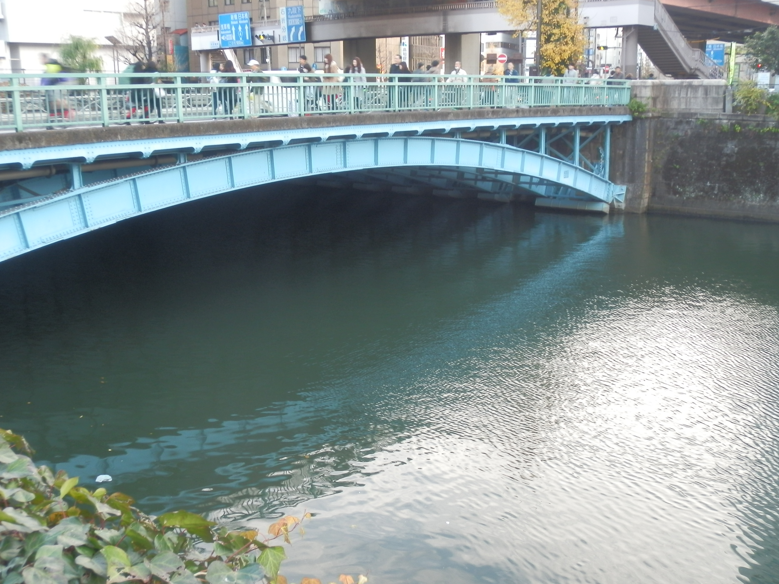 IZUMI Bashi bridge, Akihabara Tokyo